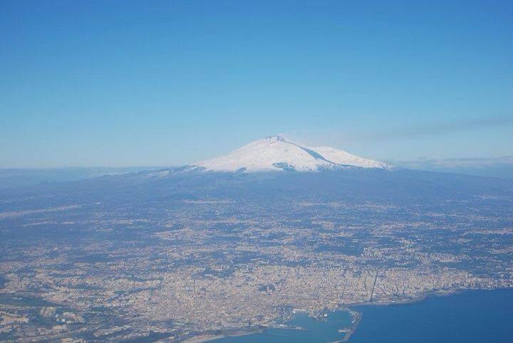 aerial view of catania with Etna